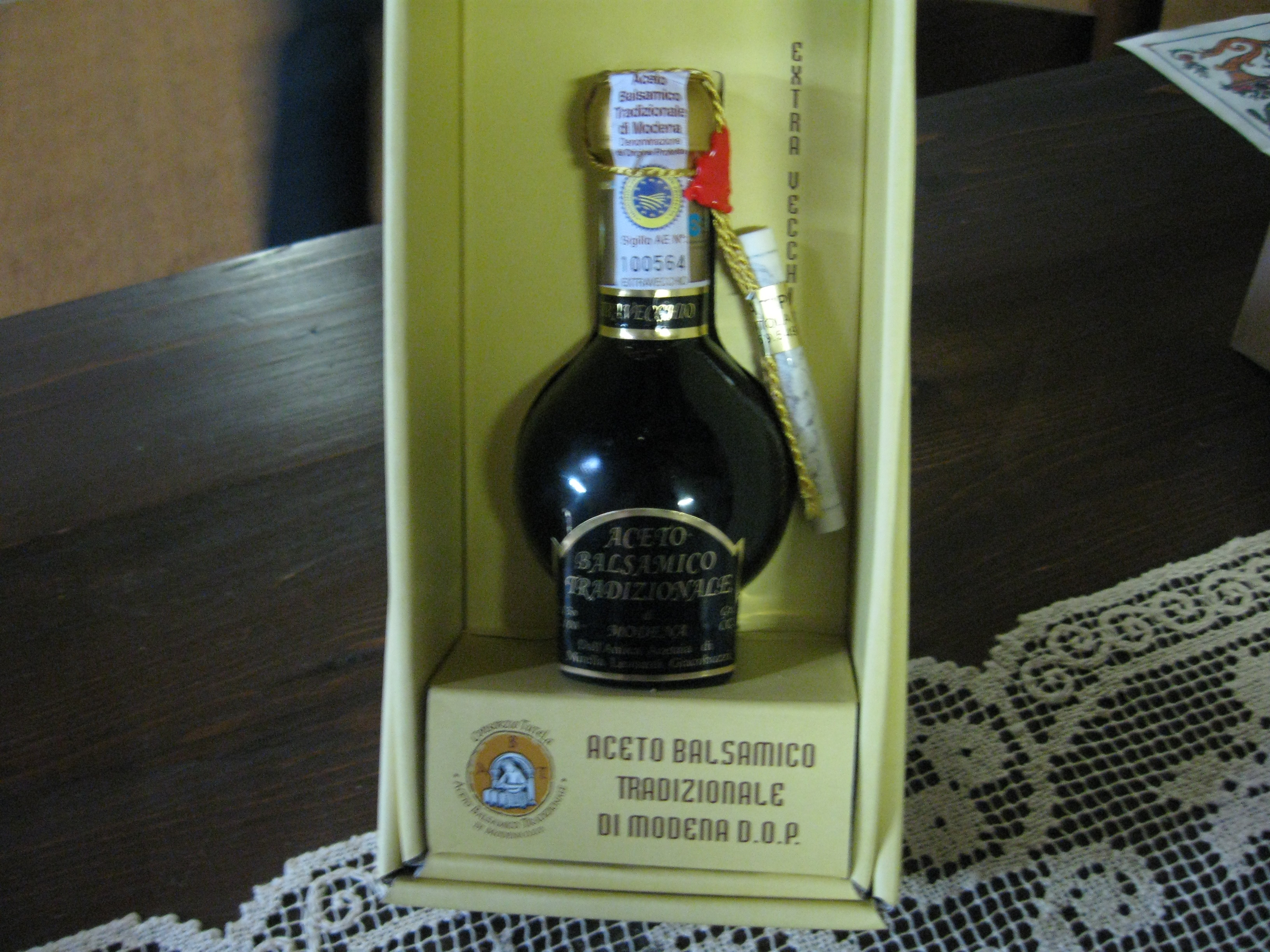 The special bottle which holds the Aceto Balsamico Tradizionale (traditional balsamic vinegar) which is a product of the region of Modena, Italy.